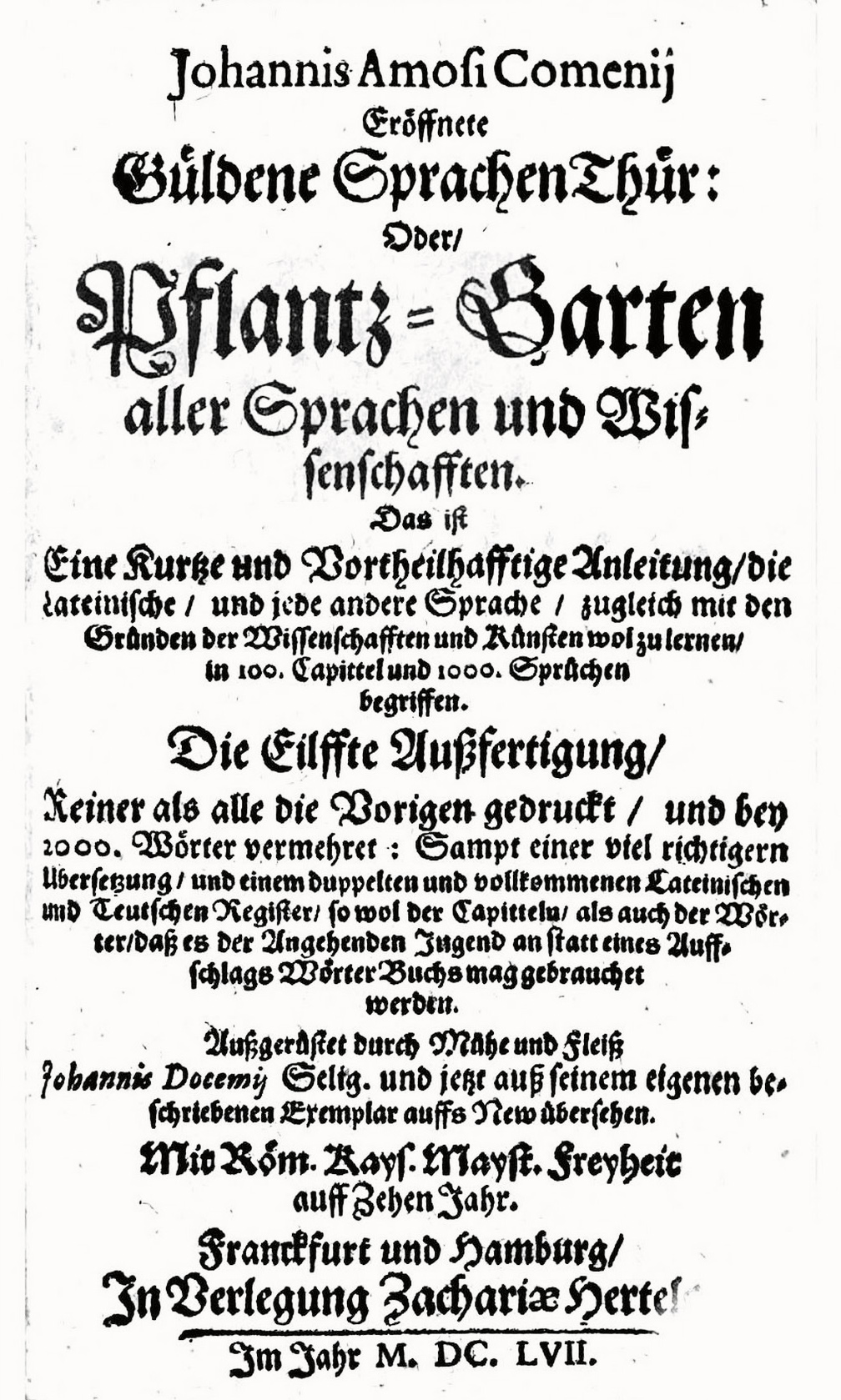 Janua linguarum reserata aurea by John Amos Comenius. The German title page of the latin-german edition from 1657.